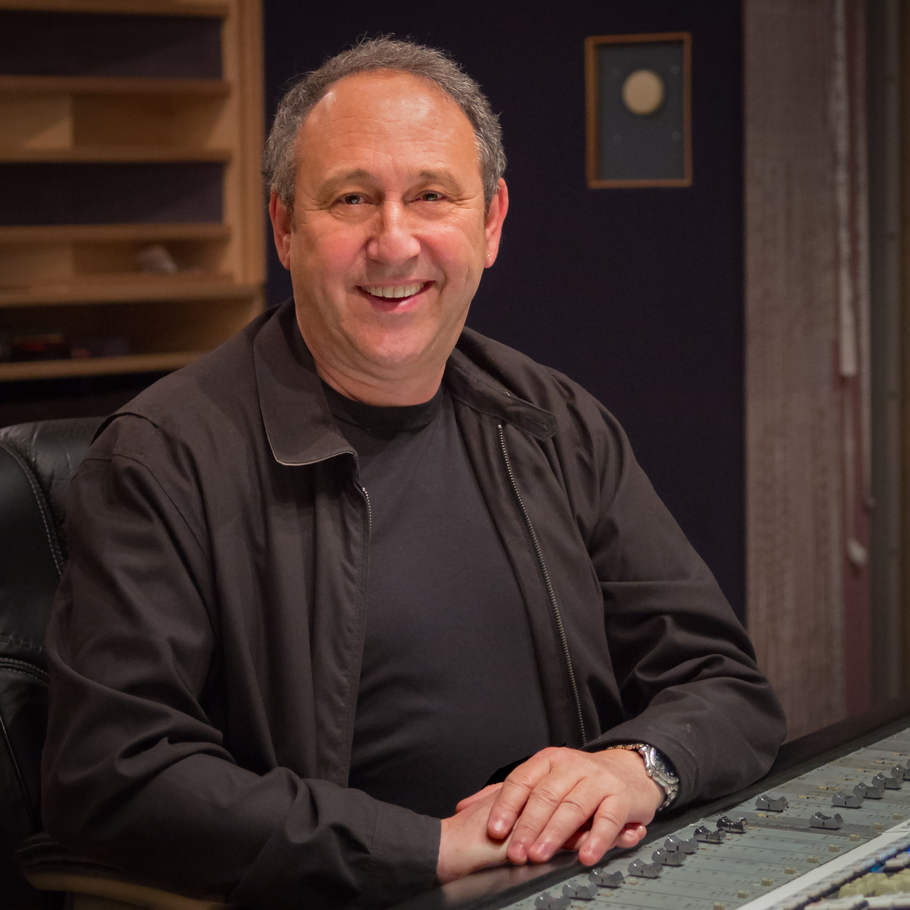 David Bendeth at the House of Loud Studios